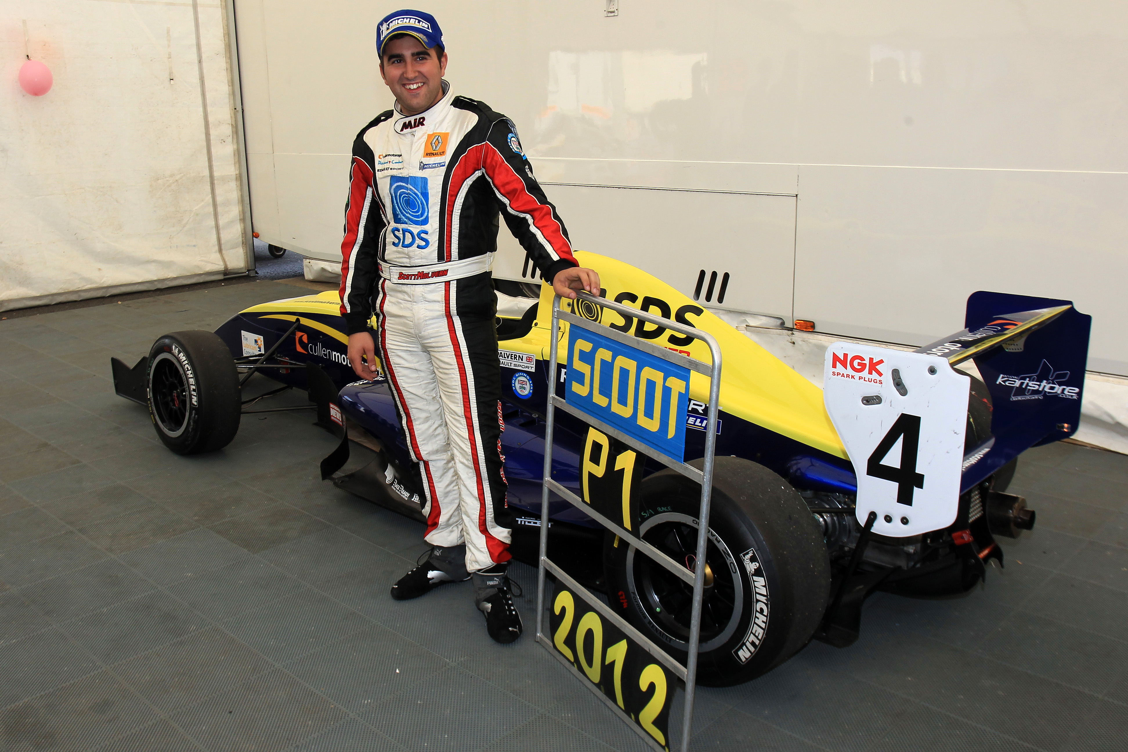 Scott Malvern after winning the 2012 Protyre Formula Renault UK Championship